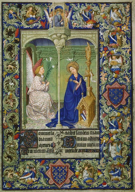 "Annunciation" page from The Belles Heures of Jean of France, Duke of Berry, French. Ink, tempera, and gold leaf on vellum; 9 3/8 x 6 5/8 in. (23.8 x 16.8 cm), The Cloisters Collection, 1954 (54.1.1). the Metropolitan Museum of Art